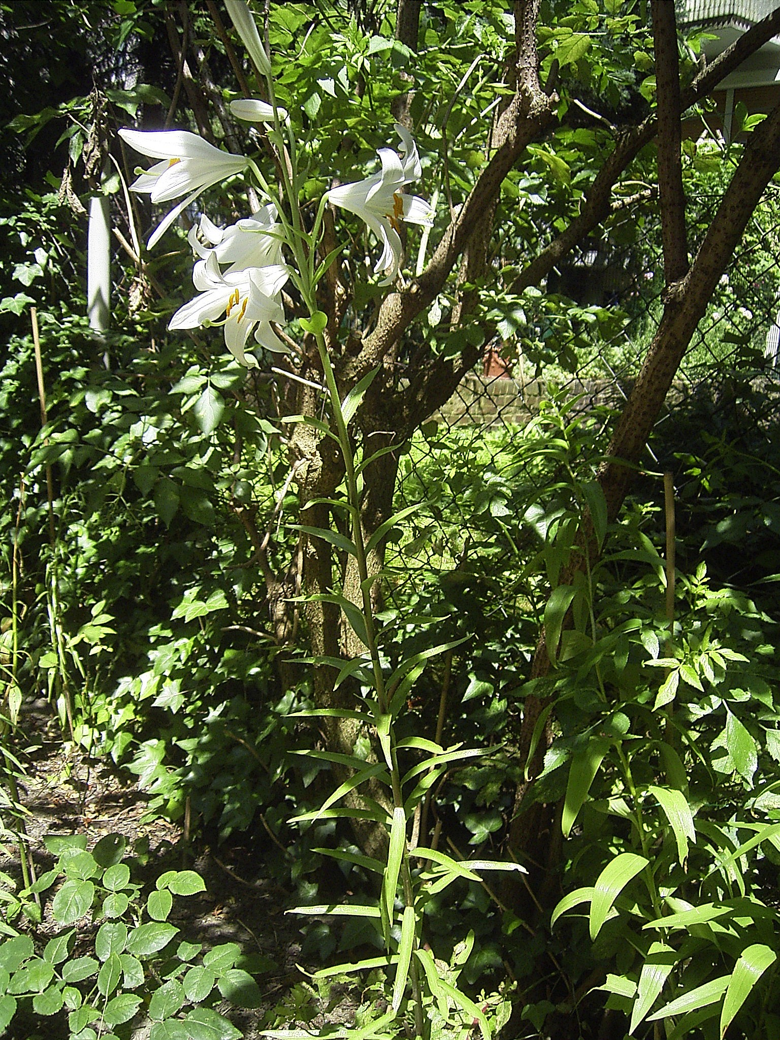 Lilium candidum habitus (flowering) Author: Denis Barthel